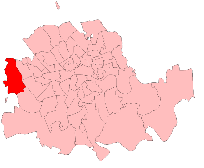 A map of Hammersmith constituency within the Metropolitan Board of Works area, as it existed from 1885 to 1918.